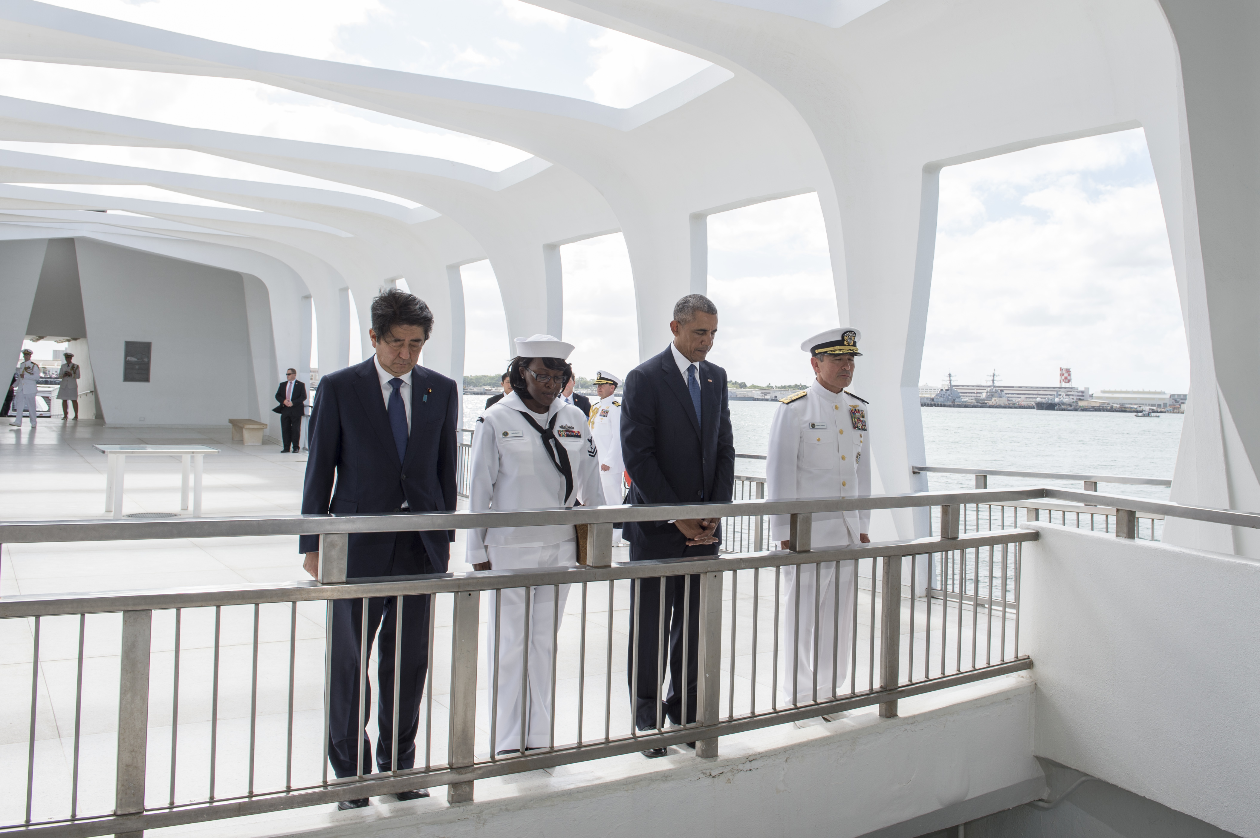 HONOLULU (Dec. 27, 2016) From left, Japanese Prime Minister, Shinzo Abe, Yeoman 2nd Class Michelle Wrabley, assigned to U.S. Pacific Fleet, President of the United States, Barack Obama, and U.S. Pacific Command Commander, Adm. Harry Harris pause to honor the service members killed during the Dec. 7, 1941 attacks on Pearl Harbor. Abe is the first Japanese prime minister to visit the USS Arizona Memorial. (U.S. Navy photo by Mass Communication Specialist 1st Class Jay M. Chu/Released) 161227-N-DX698-123 Join the conversation: navylive.dodlive.mil